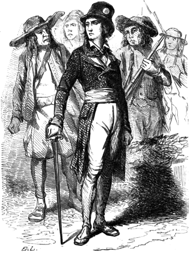 Illustration of Honoré de Balzac's Marquis de Montauran (Les Chouans).